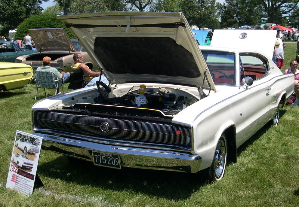 1966 Dodge Charger Source: Photographed at the Bay State Antique Automobile Club's July 10, 2005 show at the Endicott Estate in Dedham, MA by User:Sfoskett